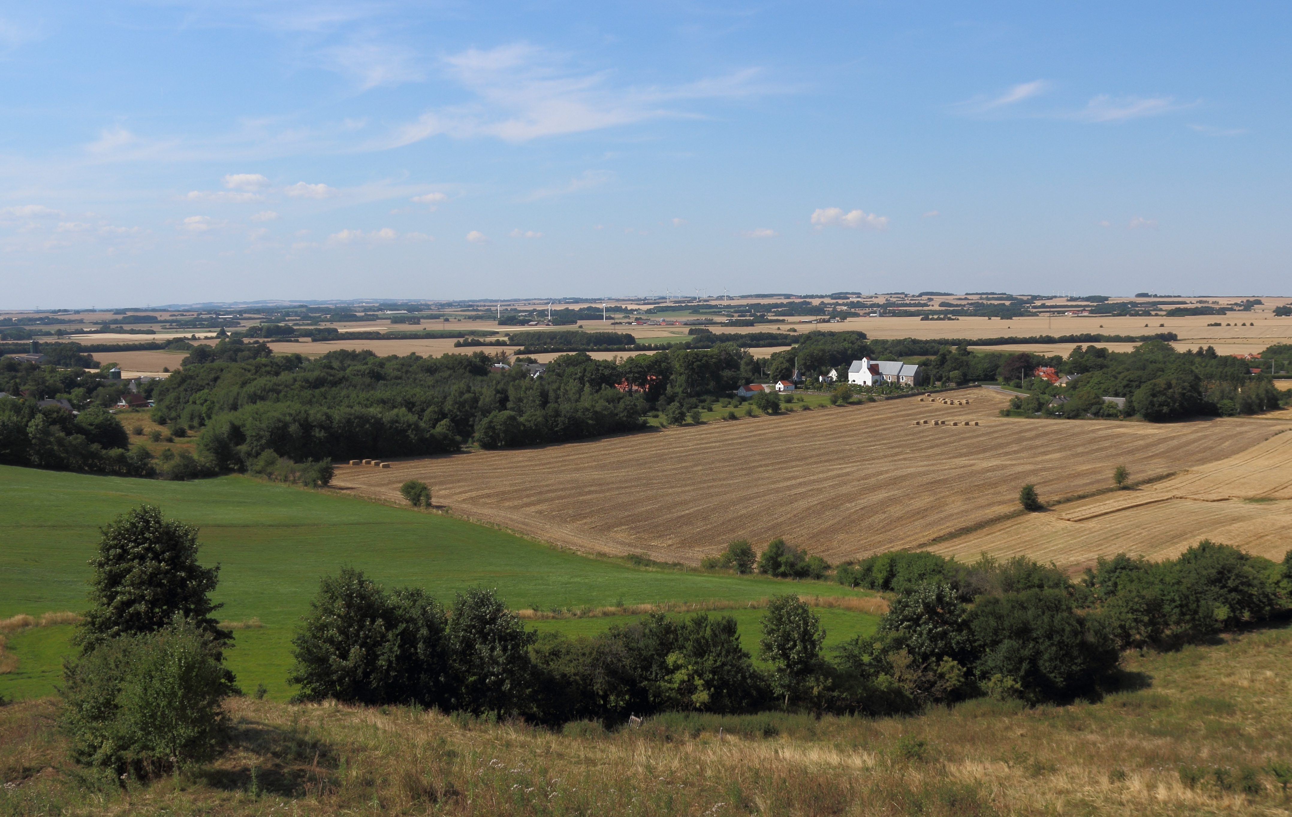 View over the Todbjerg area and Todbjerg Church from Todbjerg Tower looking to the North-West